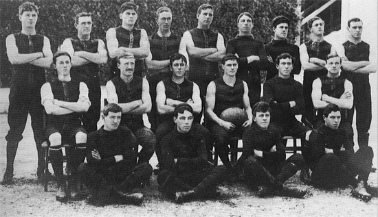 Team photo of the 1908 West Adelaide premiership team. Back row: H.R Head, B.J Moy, T Leahy, D Horgan, T Moore, W Price, J Bruce, A.H Klose, V Stephens Center Row: J.J McCarthy, J Tierney (V.C), T McKenna, B Leahy (Capt.), J Daly, W Dowling Front row: G Mensforth, D O'Donnell, P Bruce, J.F McCarthy Coach: J.C Reedman